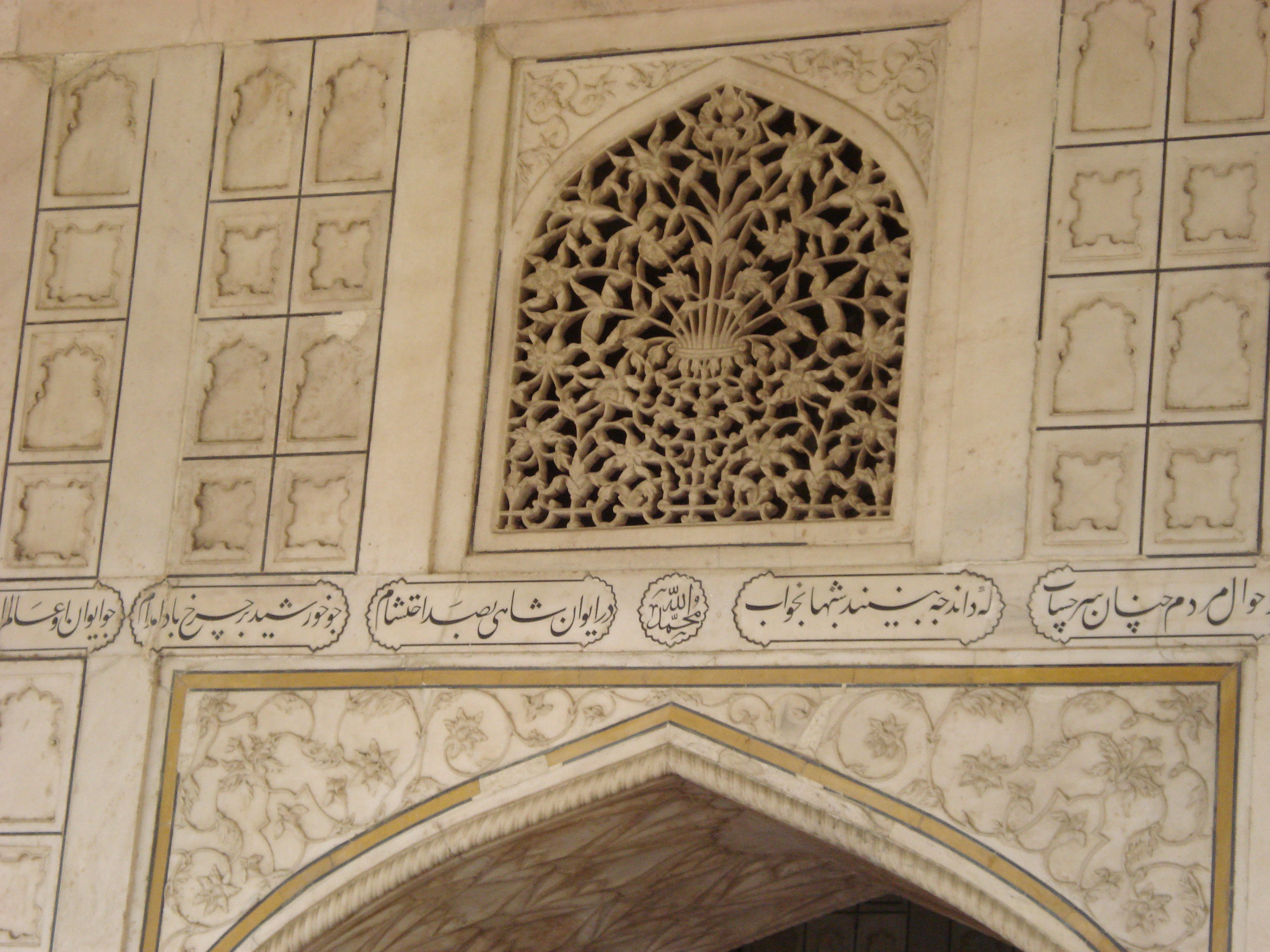 Agra palace India Persian poem